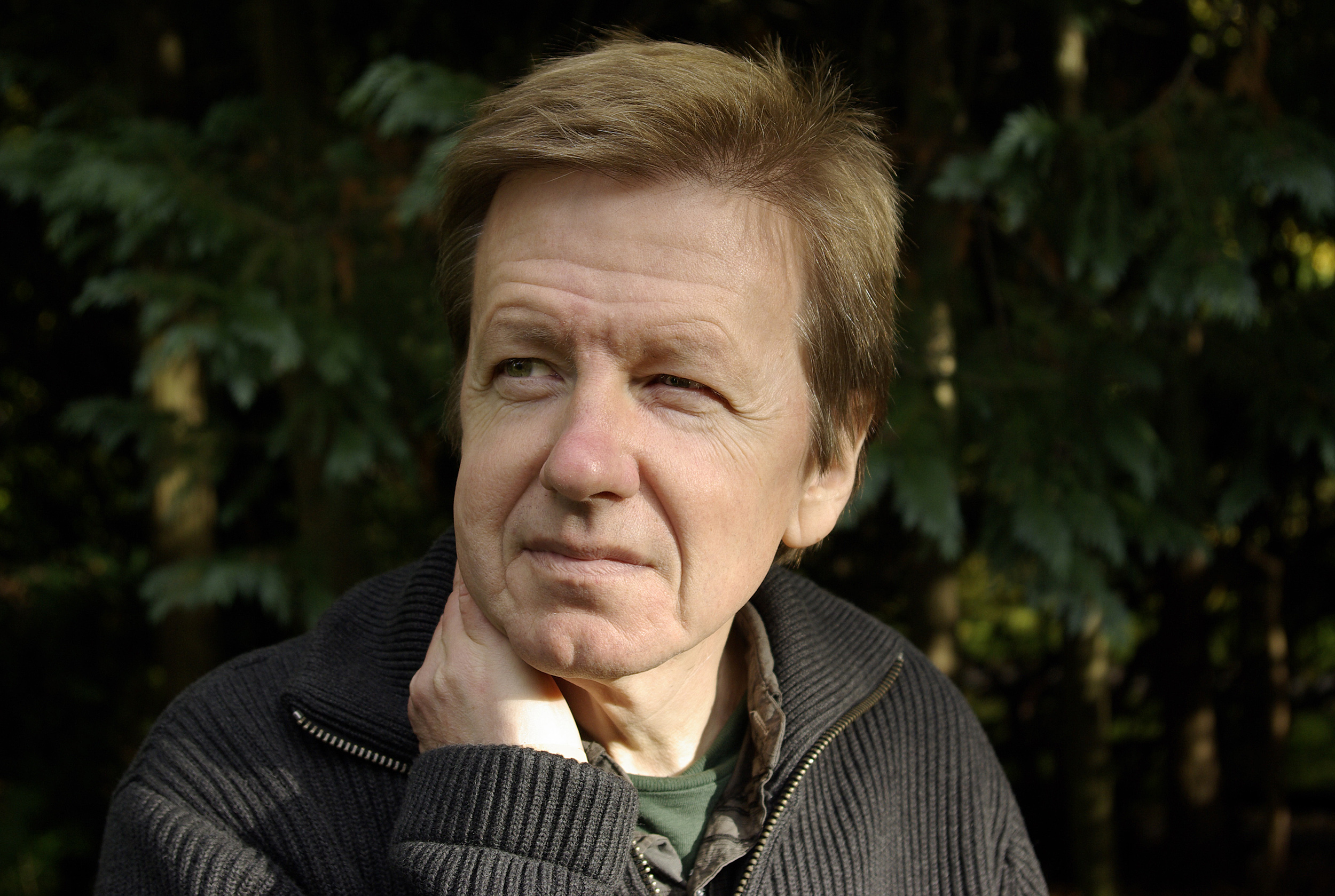 A picture of the musician Dan Berglund